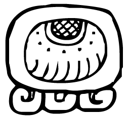 glyphcode: Maya:glyph:logogram:calendric:Tzolkin:Day01:Imix:std+suffix:v01. Description Maya glyph- logogram for Imix, named Day 01 of the Tzolkin Maya calendar. Standard inscription form, with X-hatch infix and std suffix. Source Img created by User:CJLL Wright, using freeware Maya font, redrawn & modified.